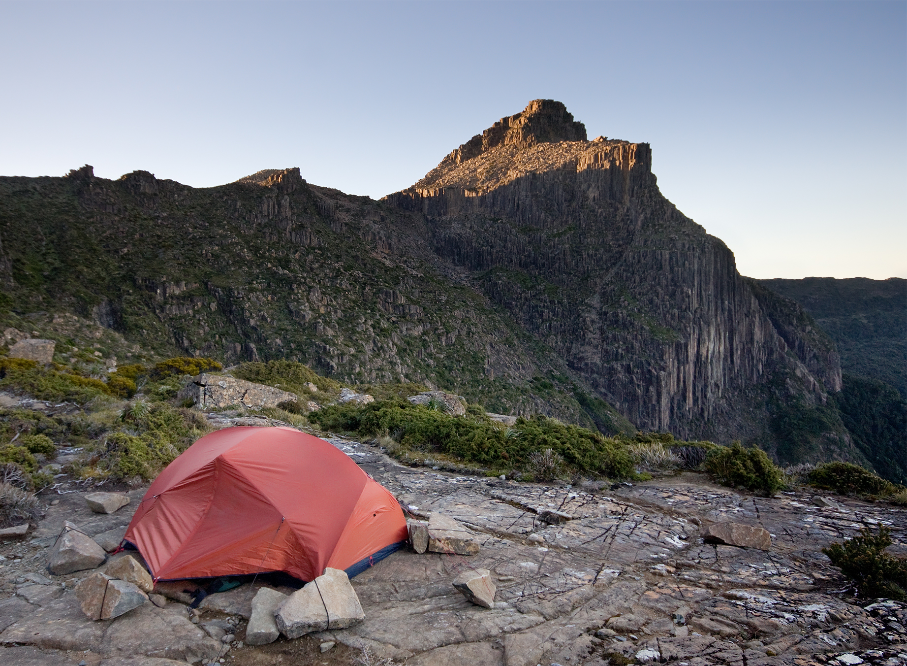 Tent at High Shelf Camp, near Mt Anne, Southwest National Park, Tasmanian Wilderness World Heritage Area, Tasmania, Australia.